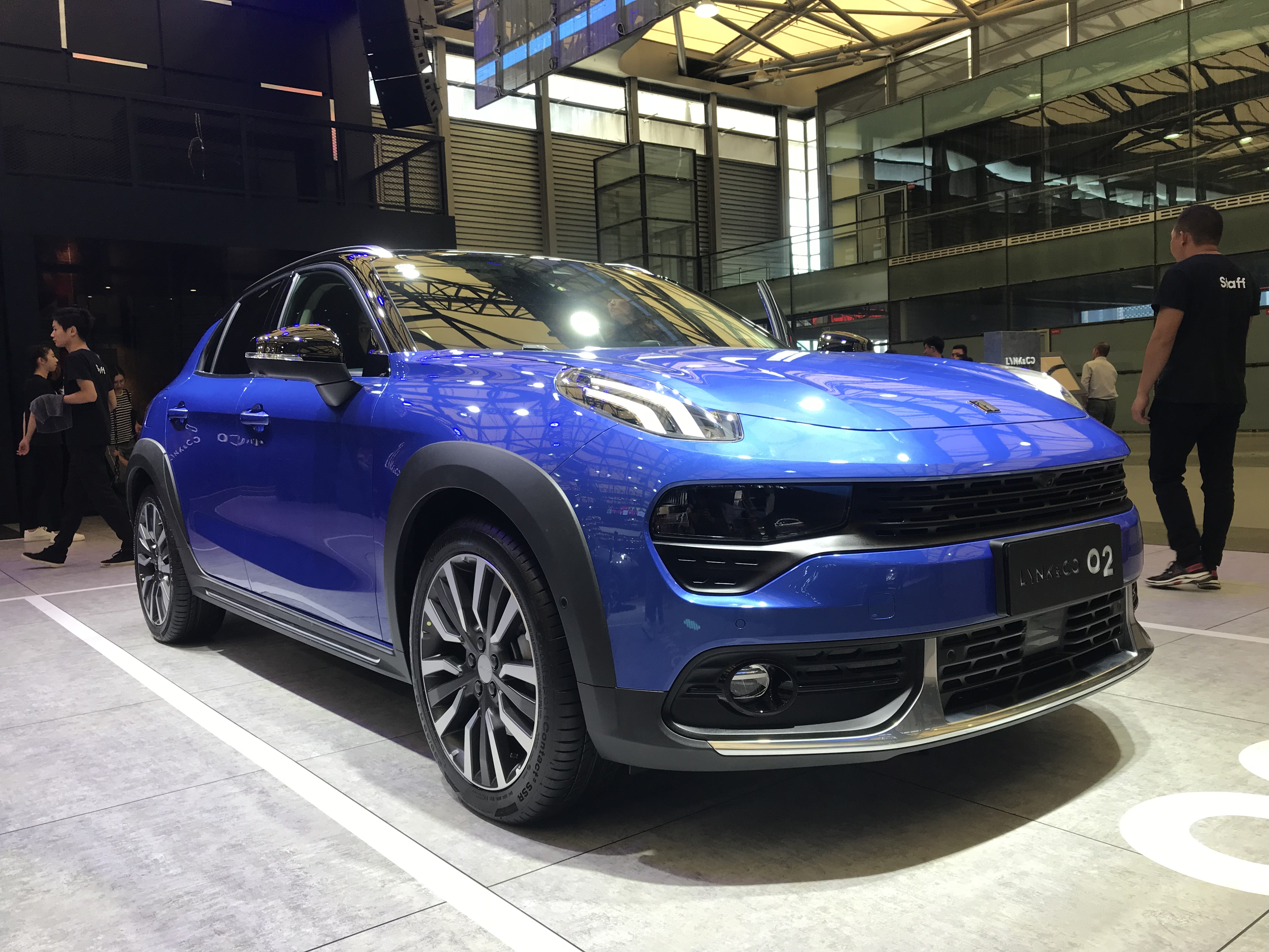 Lynk&Co 02